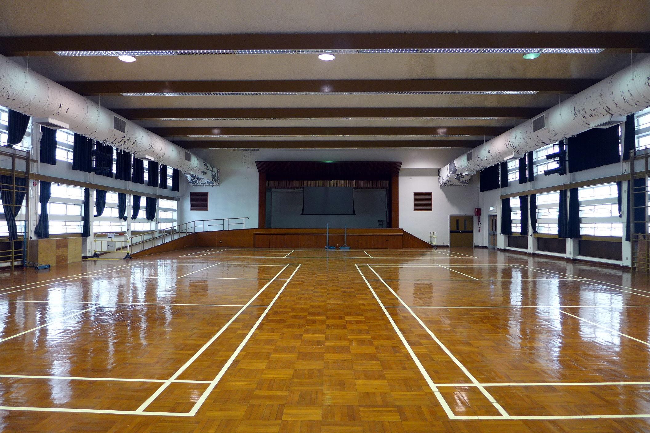 IVE Lee Wai Lee Hall